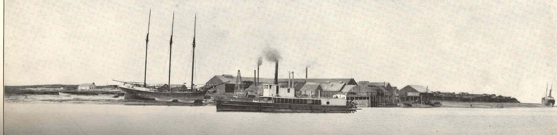 Canning Plant of Point Roberts Packing Company (A.P.A.), Koggiung, Kvichak Bay. View from stream to northeast. Schooner Prosper, Steaamer Sayak, Steamer Kvichak Subject: Canneries--Alaska, Point Roberts Packing Company (Koggiung, Alaska), Koggiung (Alaska), Prosper (Ship), Sayak (Steamboat), Kvichak (Steamboat) Geographic Subject: United States--Alaska--Koggiung Tag: Commercial Fisheries